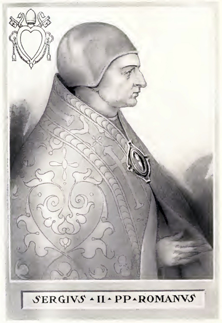 This illustration is from The Lives and Times of the Popes by Chevalier Artaud de Montor, New York: The Catholic Publication Society of America, 1911. It was originally published in 1842.